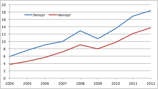 Values of import and export of Russia in 2004-2012